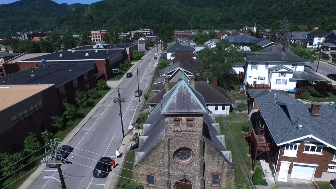 Aerial view of downtown Harlan overlooking E Central St